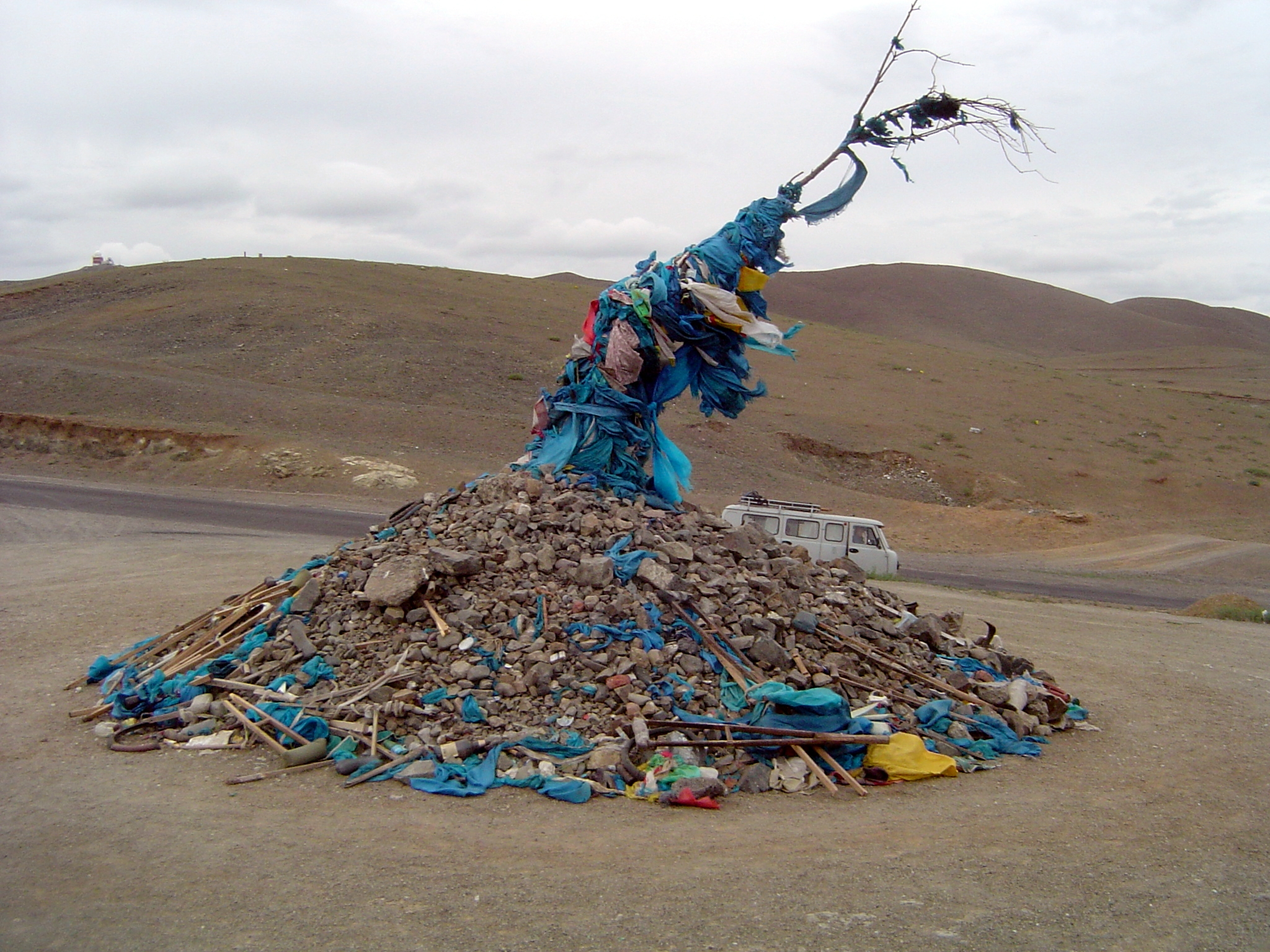 Ovoo (ceremonial stack of rocks and blue cloth) from Mongolia